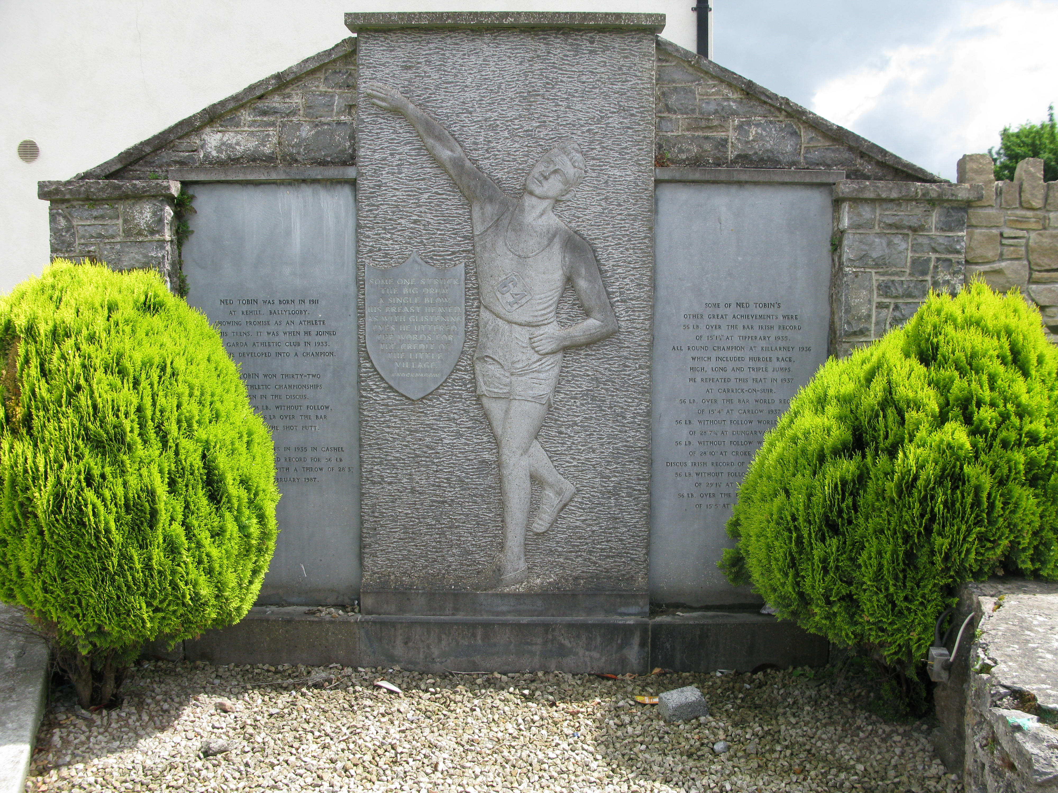 Monument to local athlete, Ned Tobin, Ballylooby, 2010.